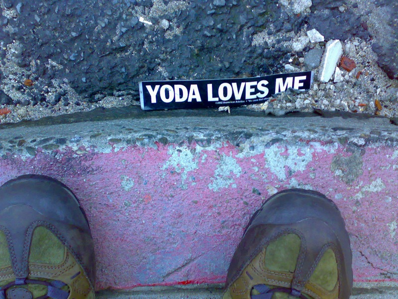 Yoda loves me - a Jedi sticker.